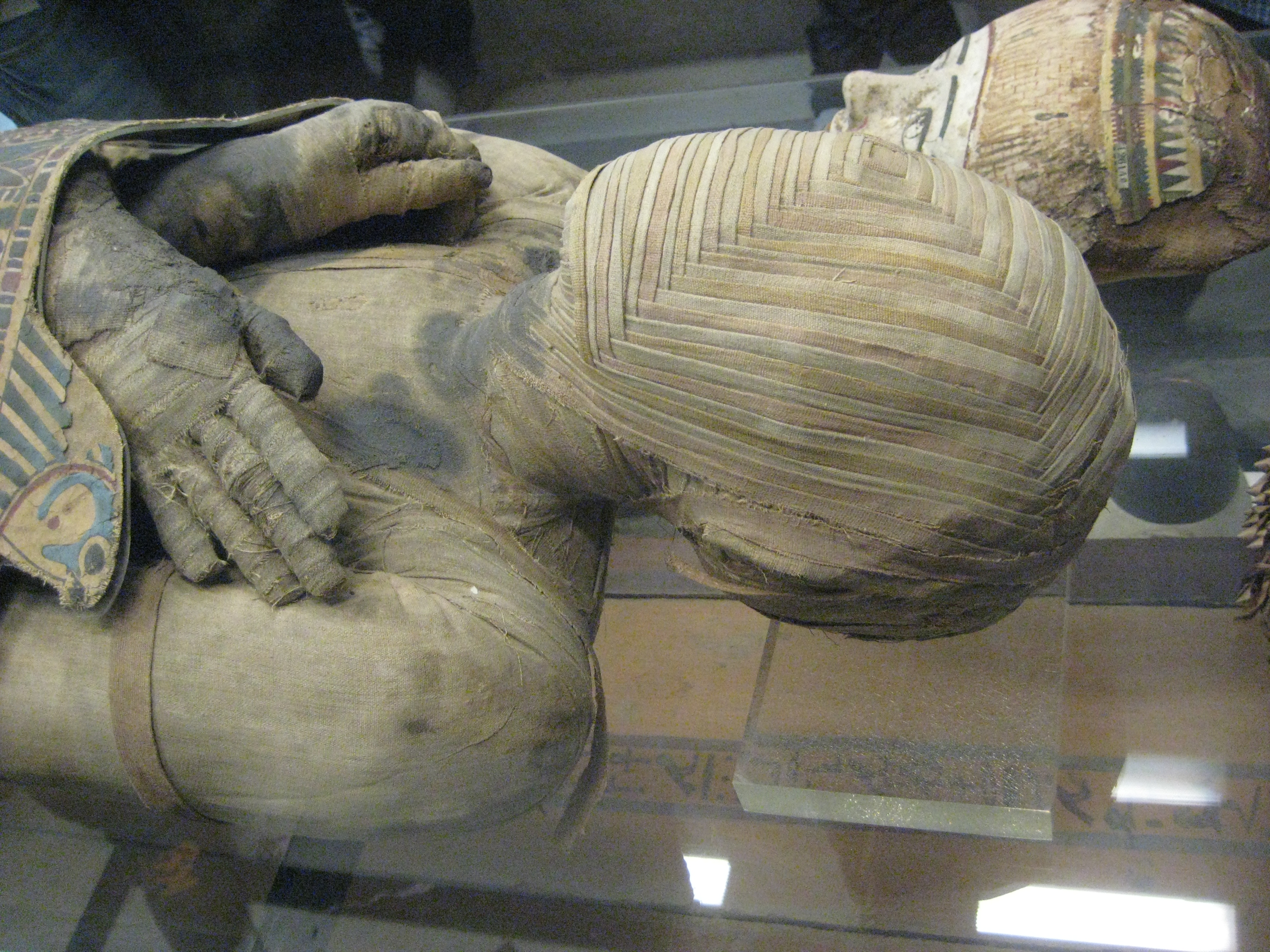 Egyptian mummy head with elabroate wrappings exhibited at Louvre. Paris - 3/29/09